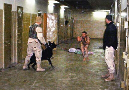 0:47 p.m., Dec. 12, 2003. SGT CORDONA has dog watching detainee while SSG FREDRICK watches. SOLDIER(S): SGT CORDONA and SSG FREDRICK. All caption information is taken directly from CID materials. U.S. Army / Criminal Investigation Command (CID). Seized by the U.S. Government. Note: An unmuzzled dog appears to be used to frighten a detainee at Abu Ghraib prison in Iraq. Two military dog handlers told investigators that intelligence personnel ordered them to use dogs to intimidate prisoners.